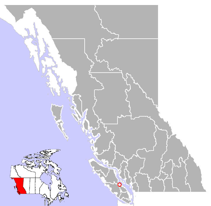 Fanny_Bay, location.